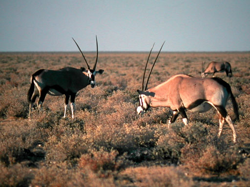 Gemsbok or Oryx (Oryx gazella) in Etosha, Namibia.